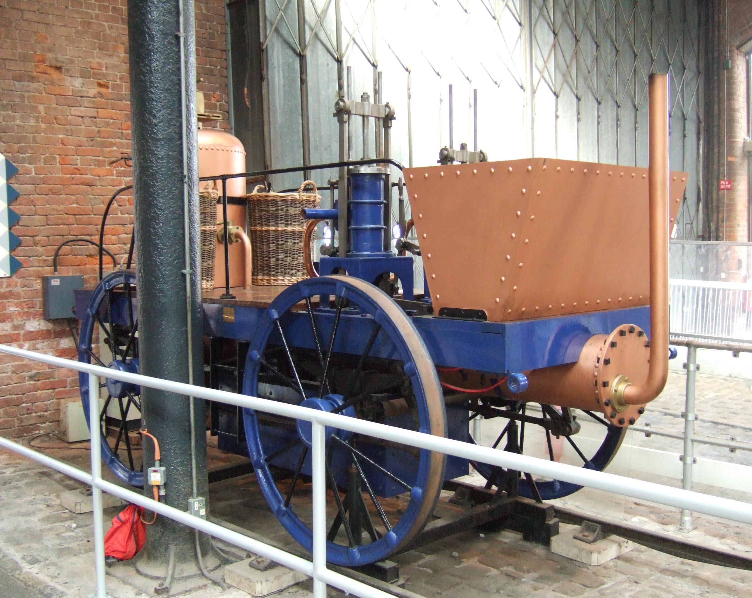 Replica of Novelty (electrically powered) on display in the Museum of Science and Industry, Manchester. The wheels and one cylinder are said to be from the original. Modified - Trimmed and file size reduced using Adobe Photoshop 5.0LE